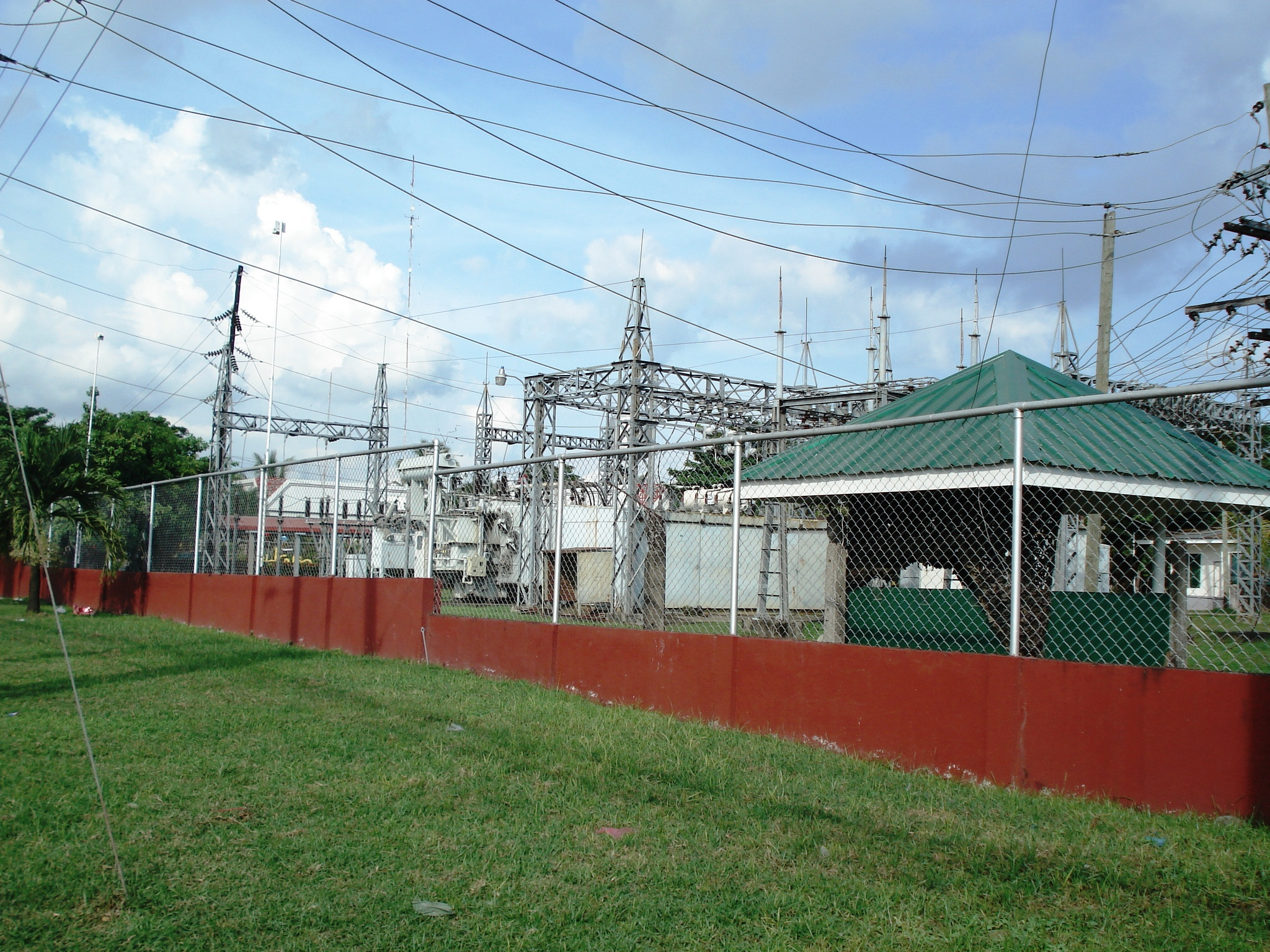 Zamcelco